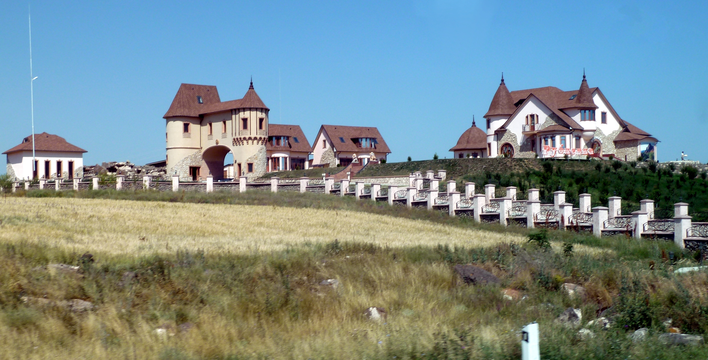 Rublyovka quarter in Maralik as seen from M-1 highway